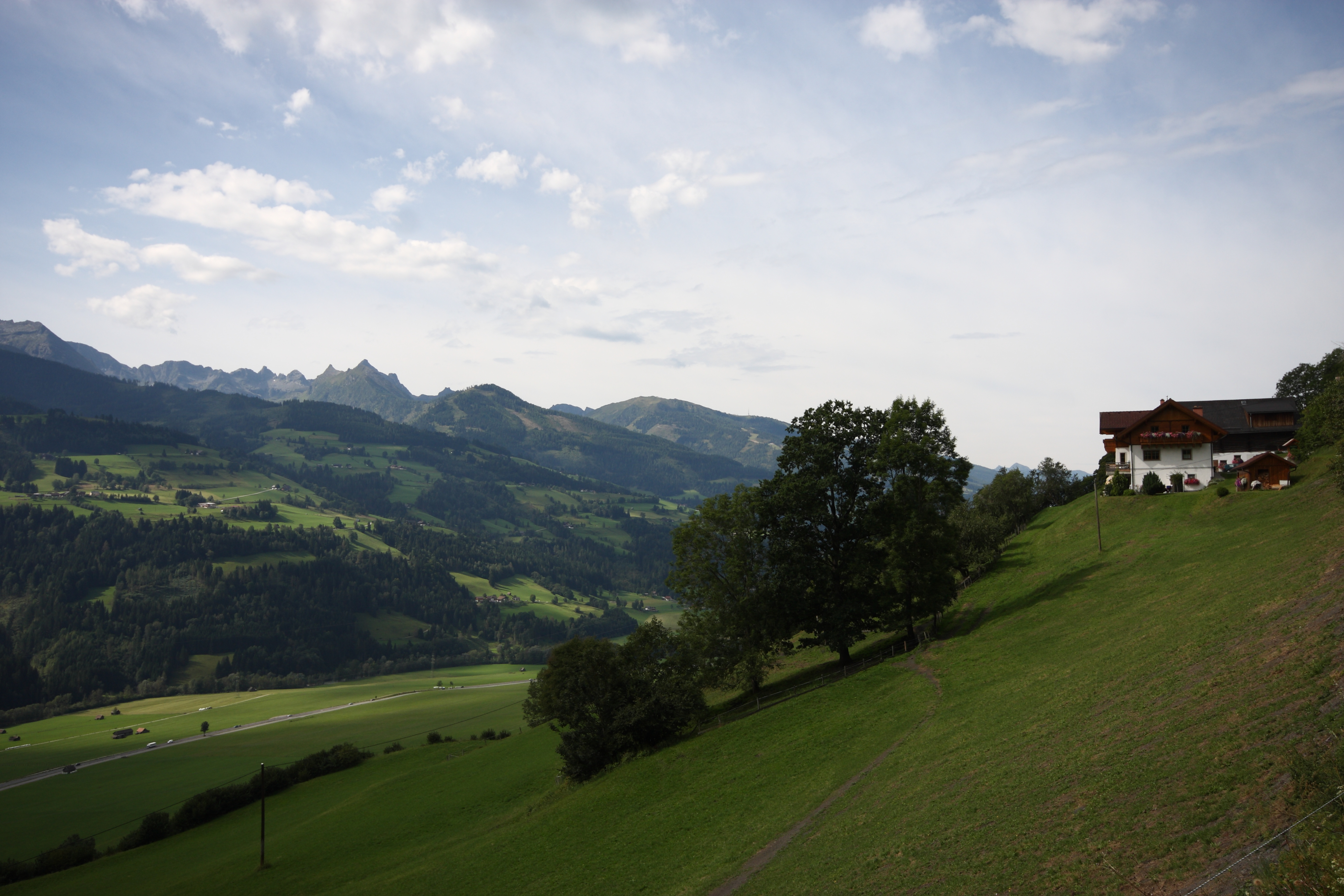 farmhouse, Klemmer, Kunagrünberg, Styria, Austria